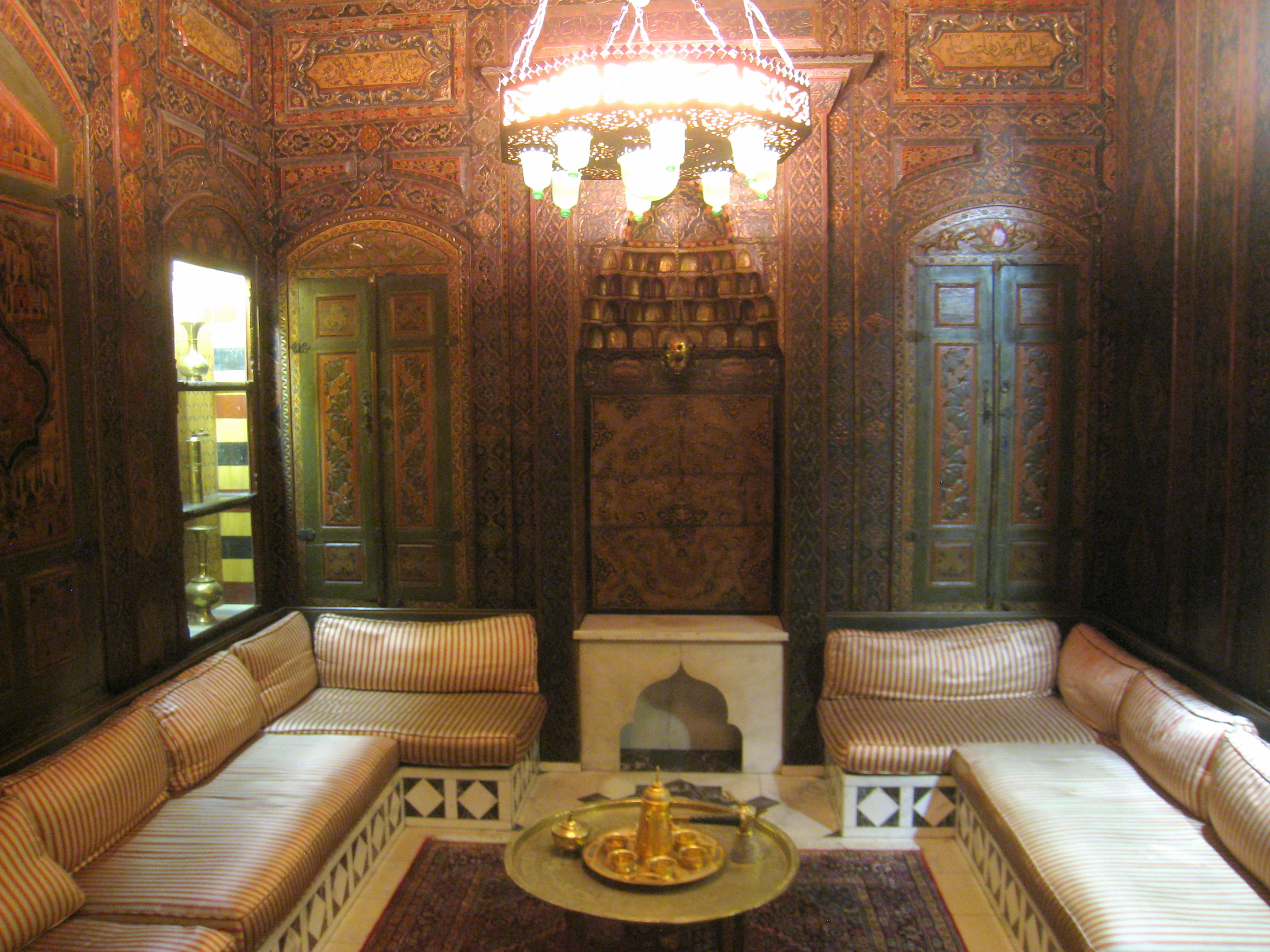 Syria-Lebanon Room, Cathedral of Learning, University of Pittsburgh, Pittsburgh, Pennsylvania, USA.